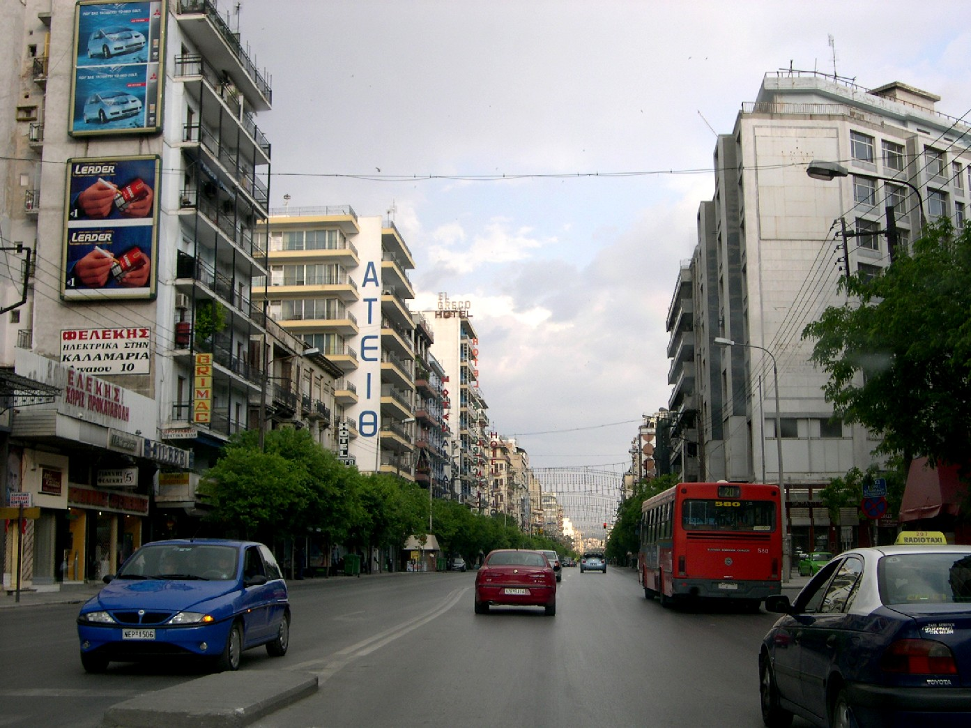 Egnatia Avenue in Thessaloniki, Greece. Photo taken in 2006.